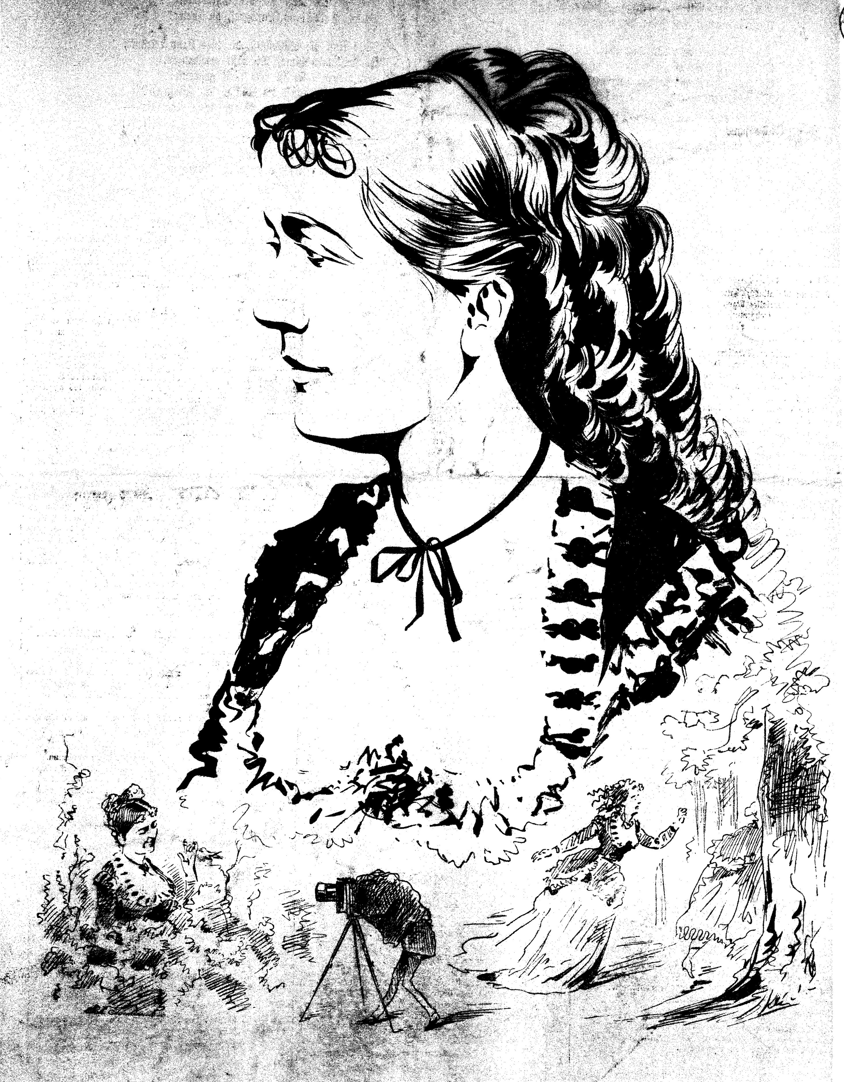 Cartoon of Marie von Rabatinsky (* approx 1842 - ???), Austrian singer.